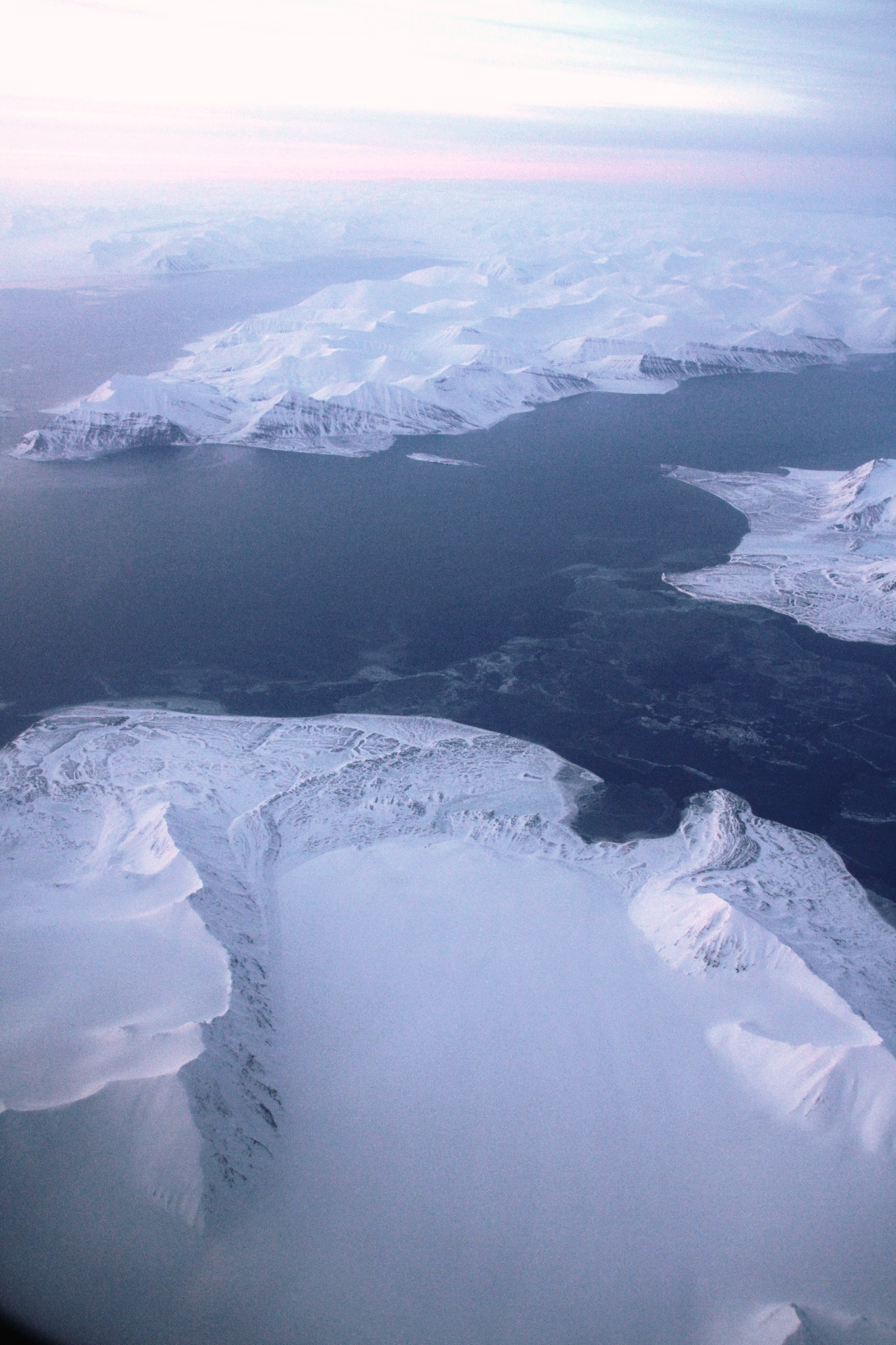 Aerial view over the Recherche Fjord area of Northern Wedel Jarlsberg Land, Southwest Spitsbergen - Svalbard (Norway)